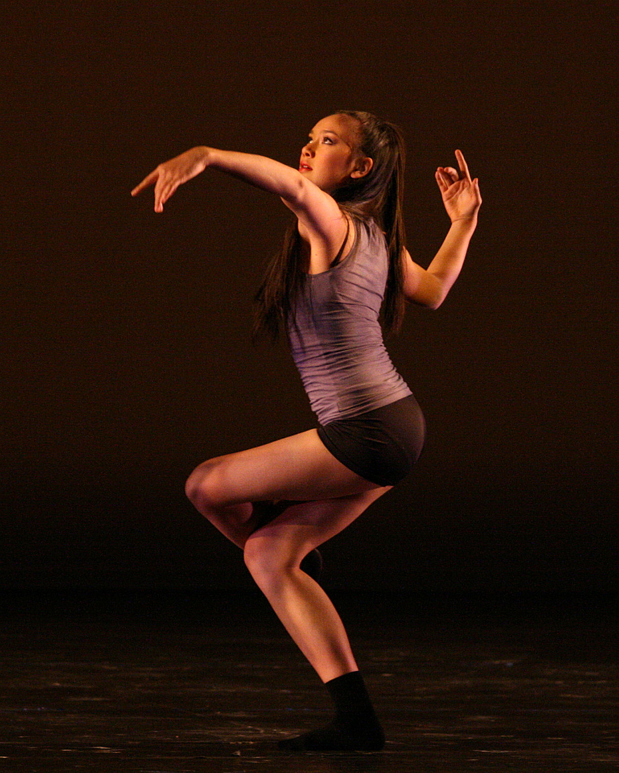 Kinder Theory, a modern dance performed by Daria L.